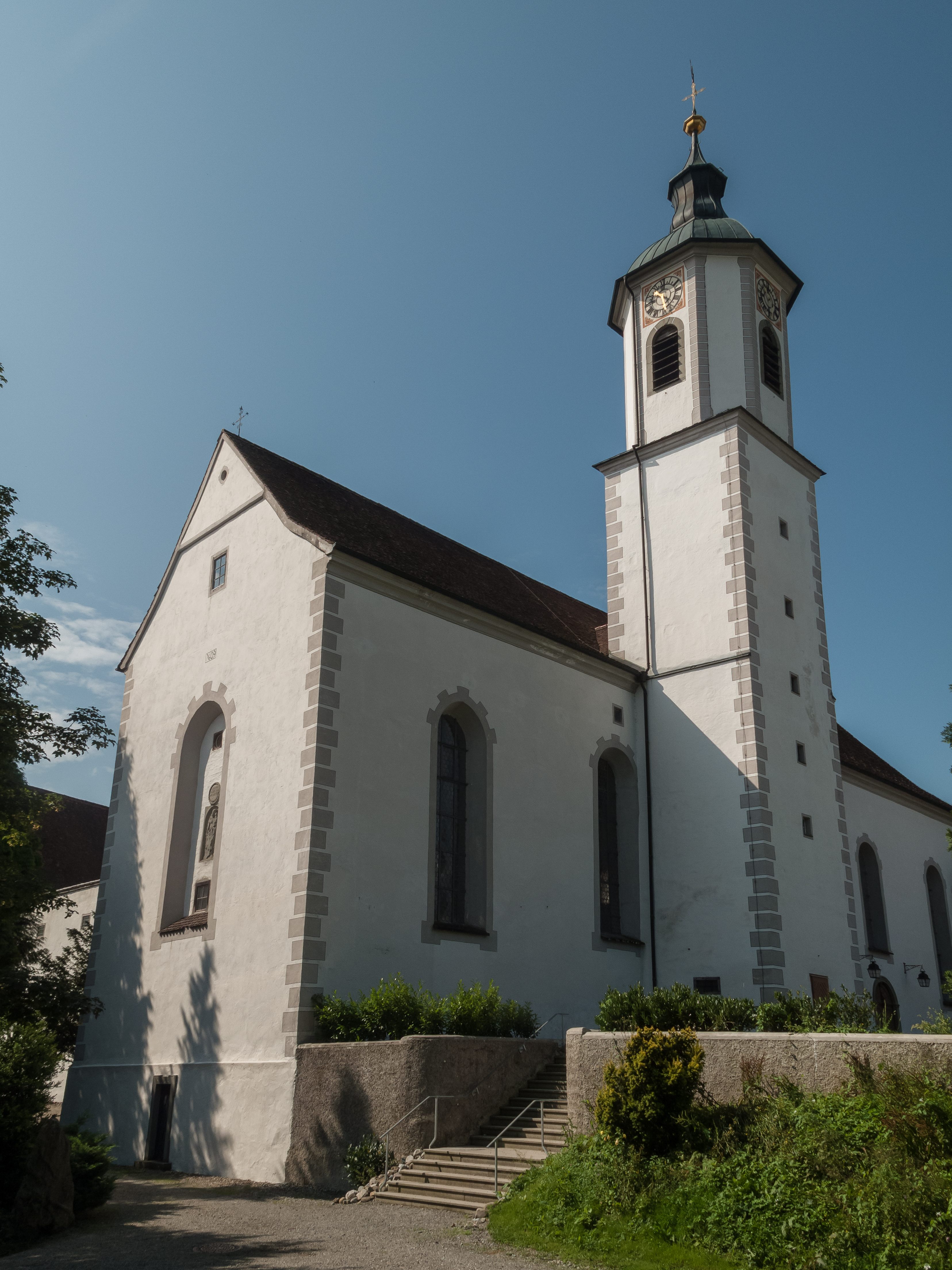 Schloss Zeil, church (die Pfarrkirche Sankt Maria)